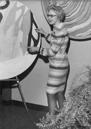 Drewelowe with one of her pieces at a Boulder Arts Guild show in the 1970s.